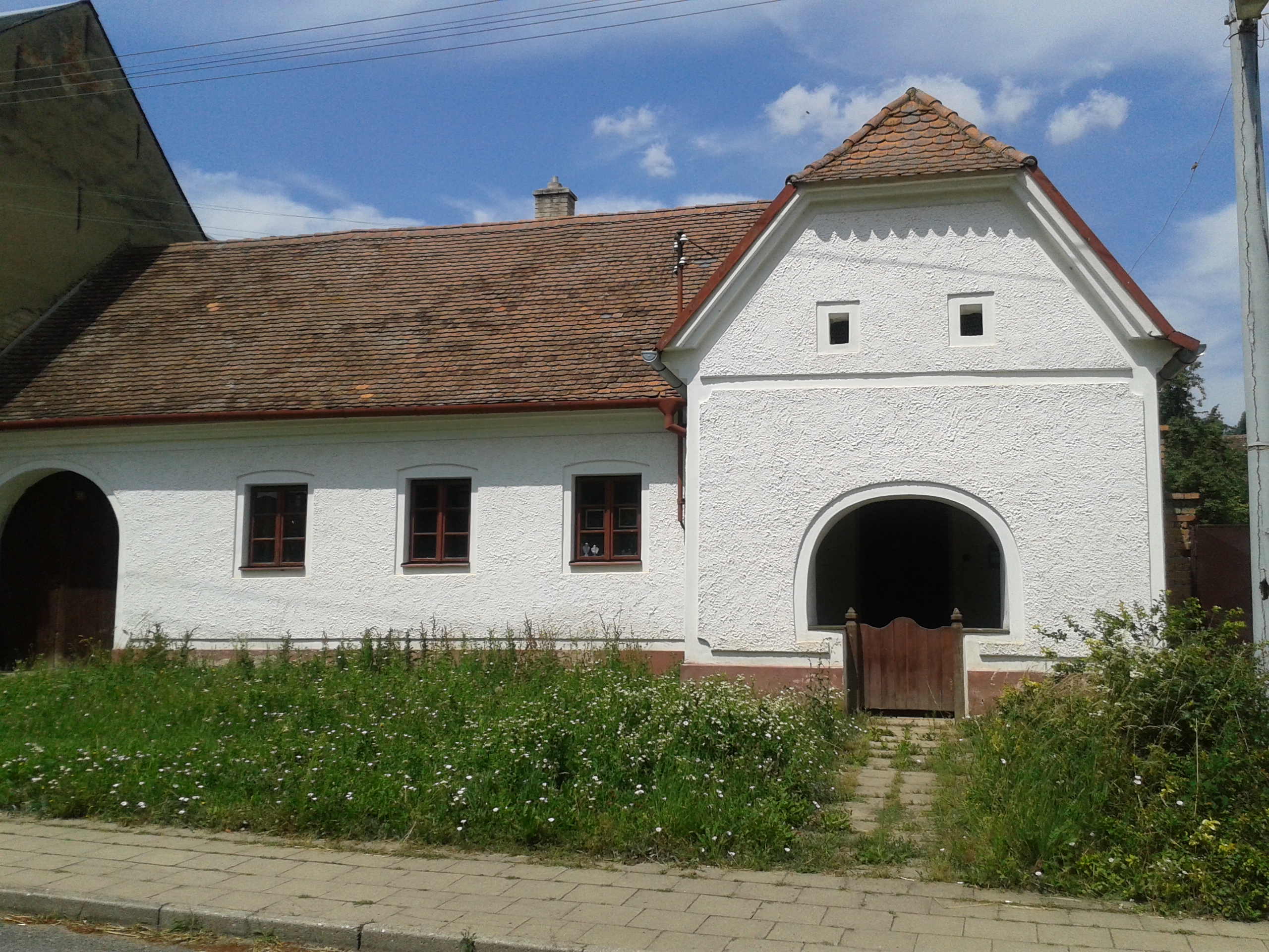 Lysovice, Vyškov District, Czechia.